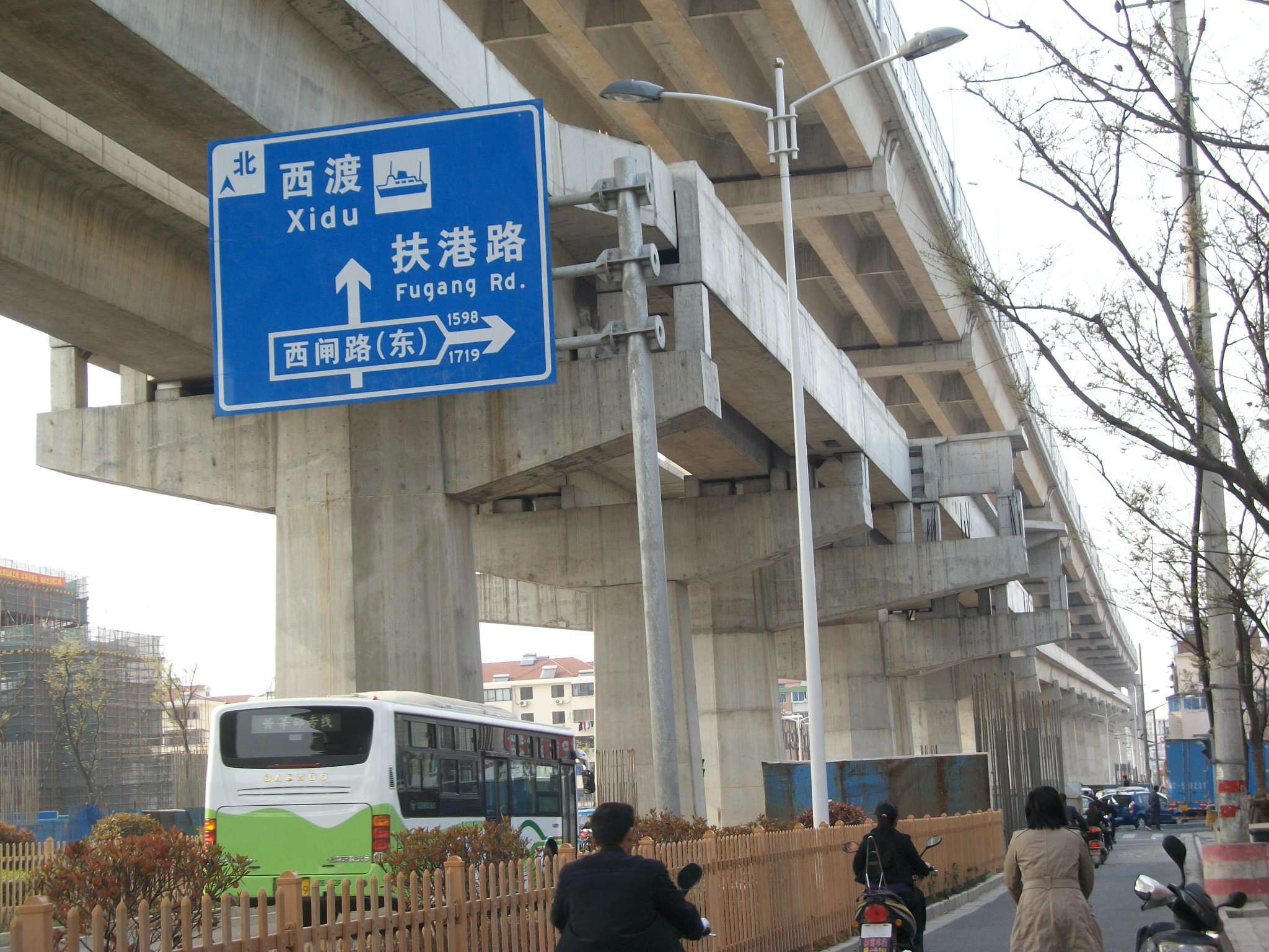 Shanghai Metro Line 5 Xidu satation under construction.